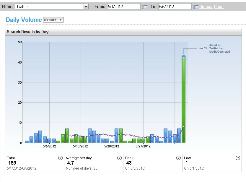 Social Media Monitoring 05/01/2012 - 06/05/2012